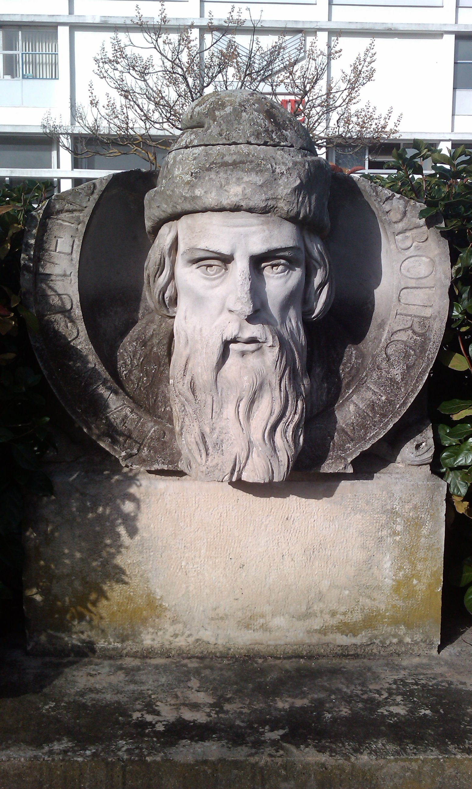 Bust of Johannes Gutenberg, in Tours, France.